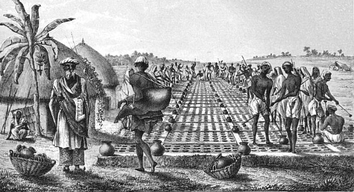 Ice pits in Allhabad, 1828